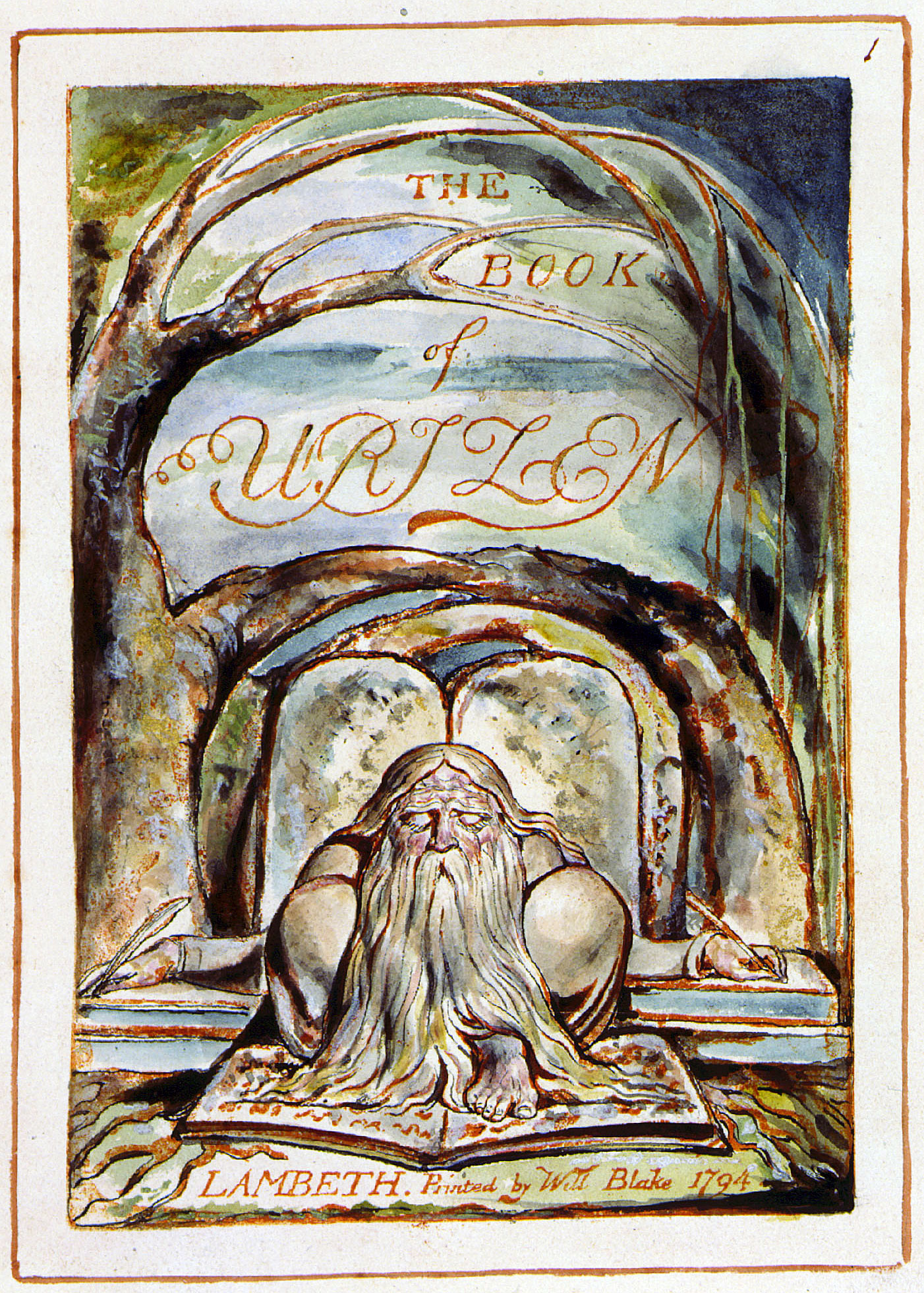 The Book of Urizen, copy G object 1 The Book of Urizen copy G, c. 1818 (Library of Congress): electronic edition object 1 (Bentley 1, Erdman 1, Keynes 1)